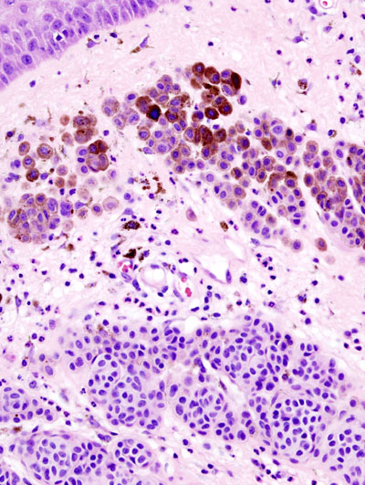 Histopathology representing an intradermal nevocellular nevus. Higher magnification of a file "Nevocellular_nevus_histopathology_(2).jpg".